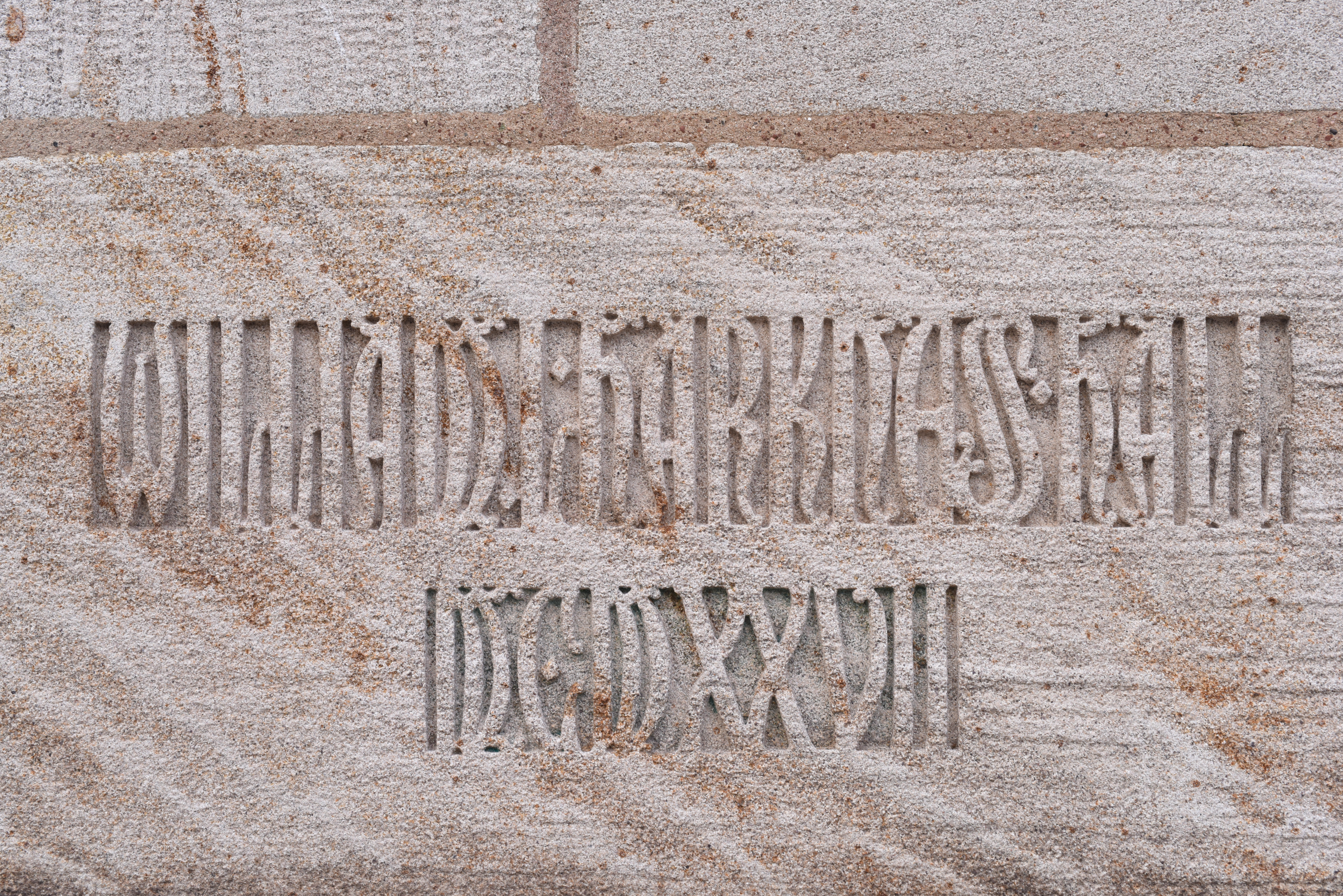 Yale IV